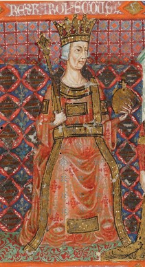 Charles II of Naples